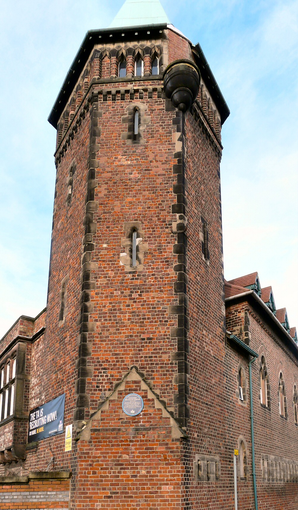 Armoury Tower